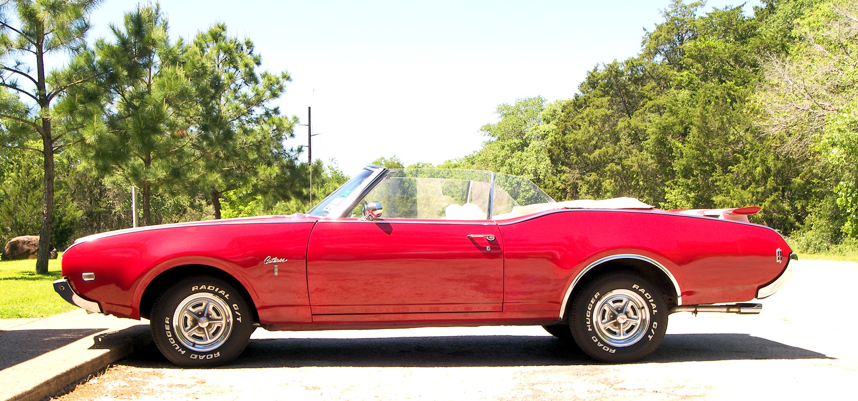 A 1969 Oldsmobile Cutlass convertible.